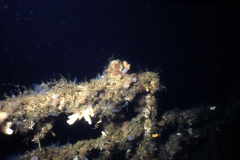 Stern of wreck of the HAPAG Ship "Seattle", sunk during the German invasion of Norway, 9 April 1940